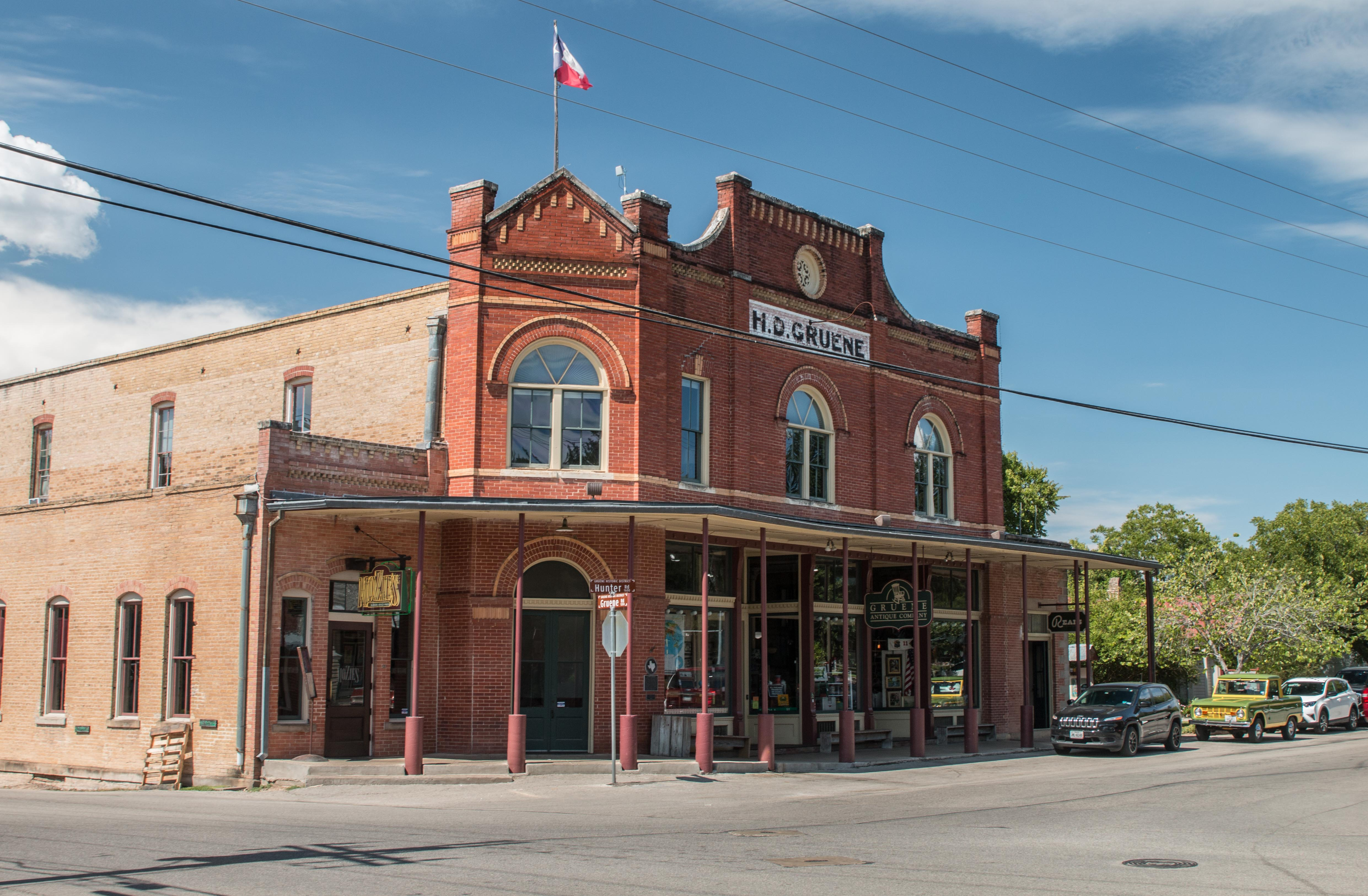 Gruene Store in the Gruene Historic District